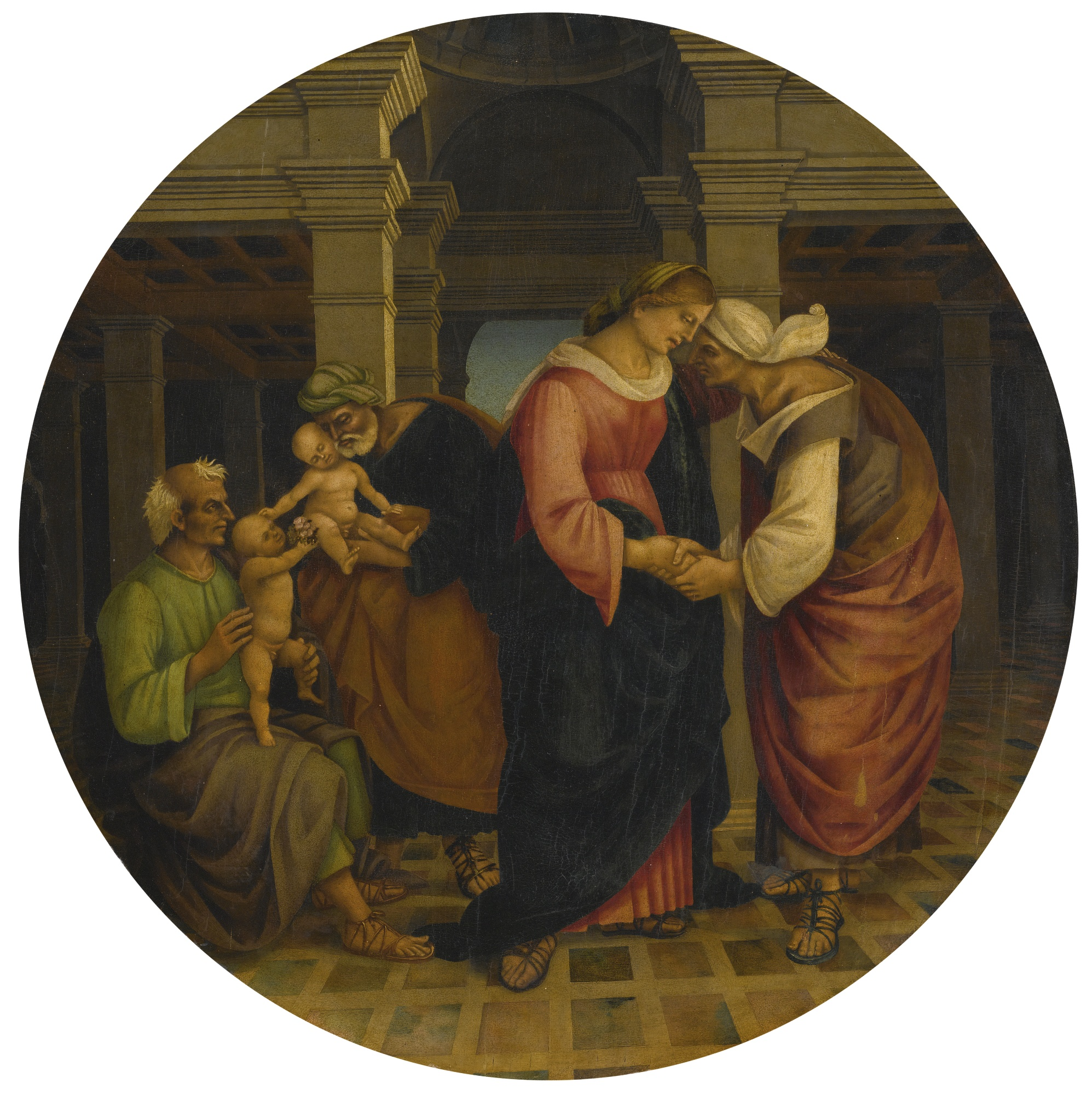 tondo